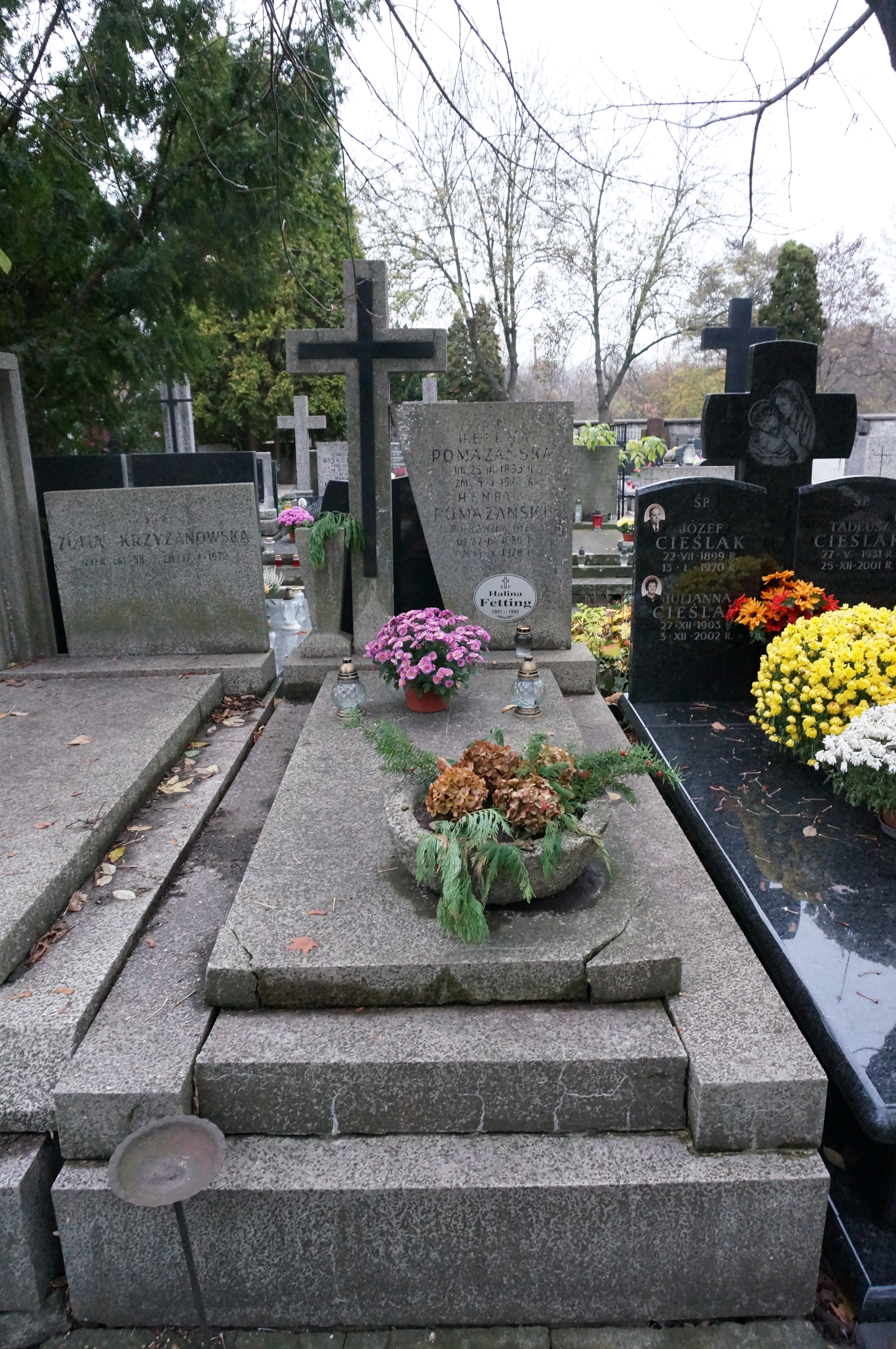 The grave of Henryk Pomazański at the Powązki Cemetery (section a, row 3, grave 13)